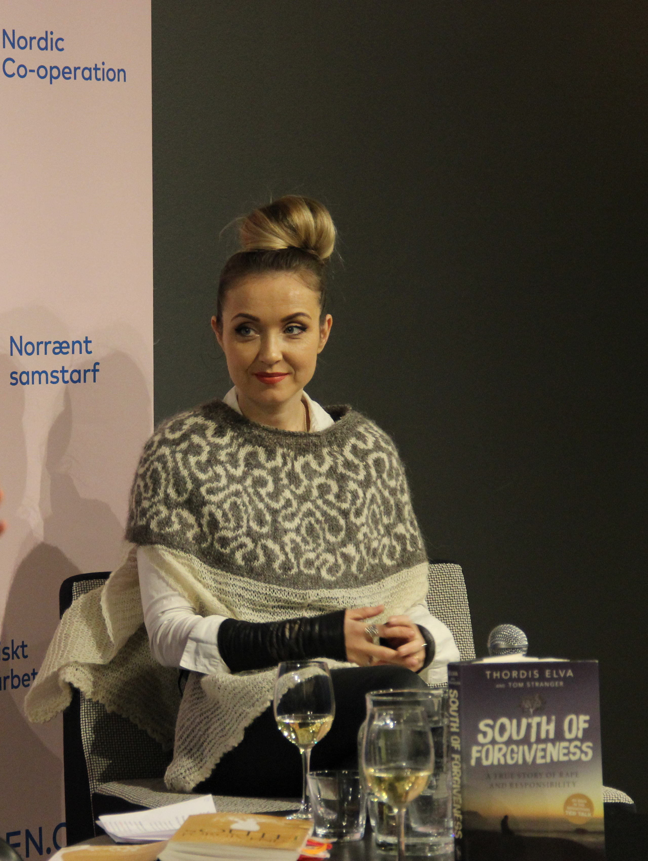 Thordis Elva at a book event in Helsinki in December 2019.